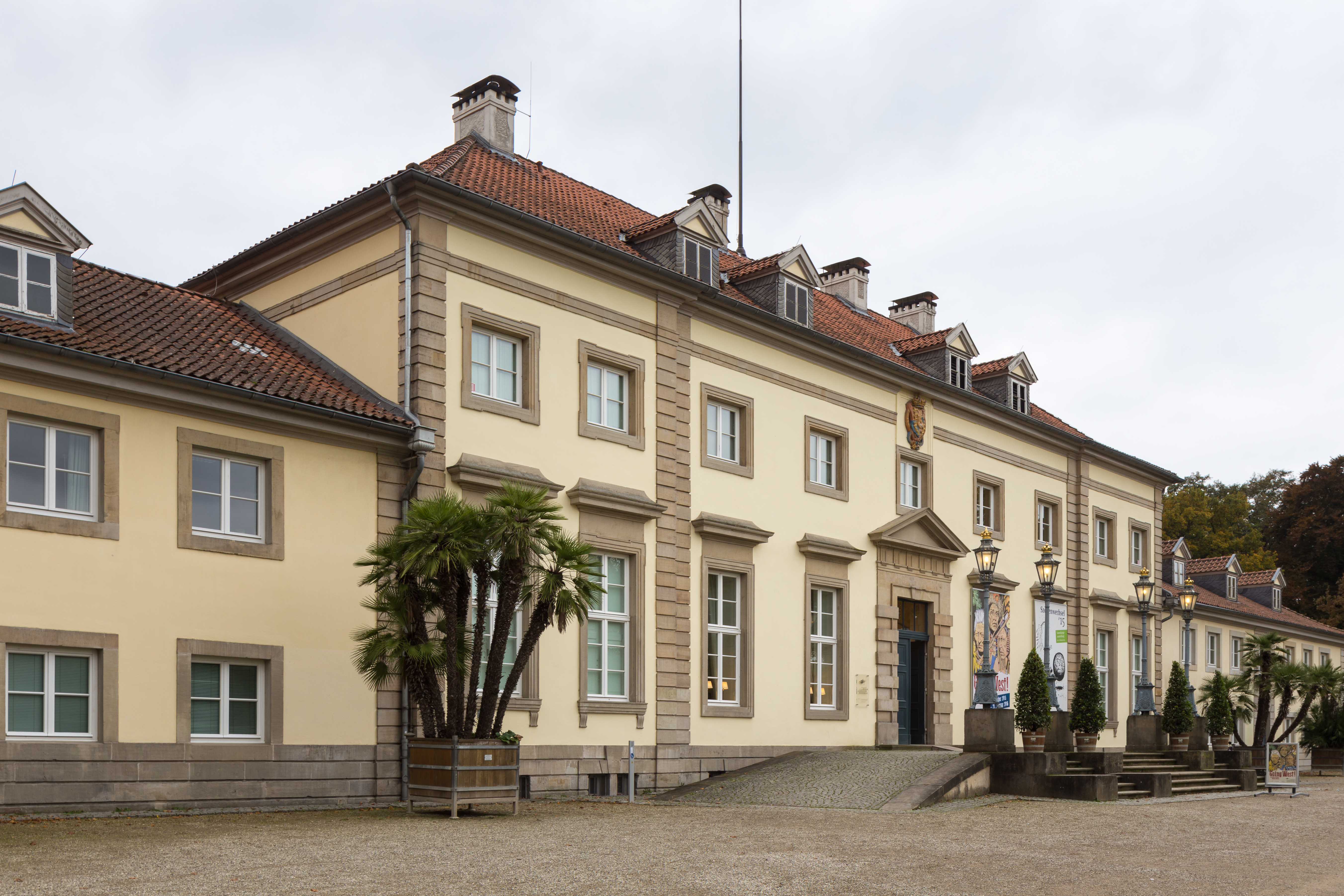 Georgenpalais building in Georgengarten garden in Nordstadt quarter of Hannover, Germany. The building houses the German museum for cartoons and caricature, named after German illustrator and poet Wilhelm Busch.